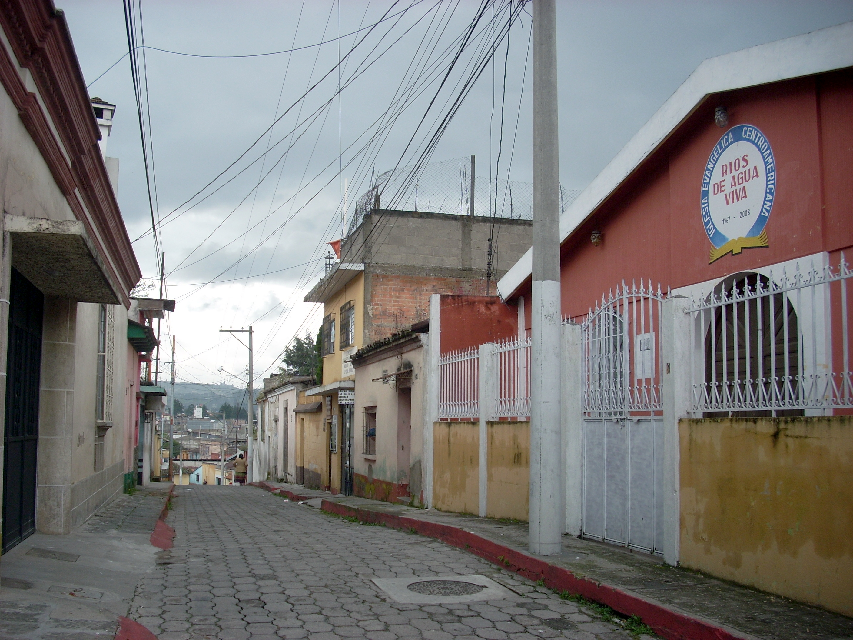 8a Calle, Zona 1, Quetzaltenango, looking west.